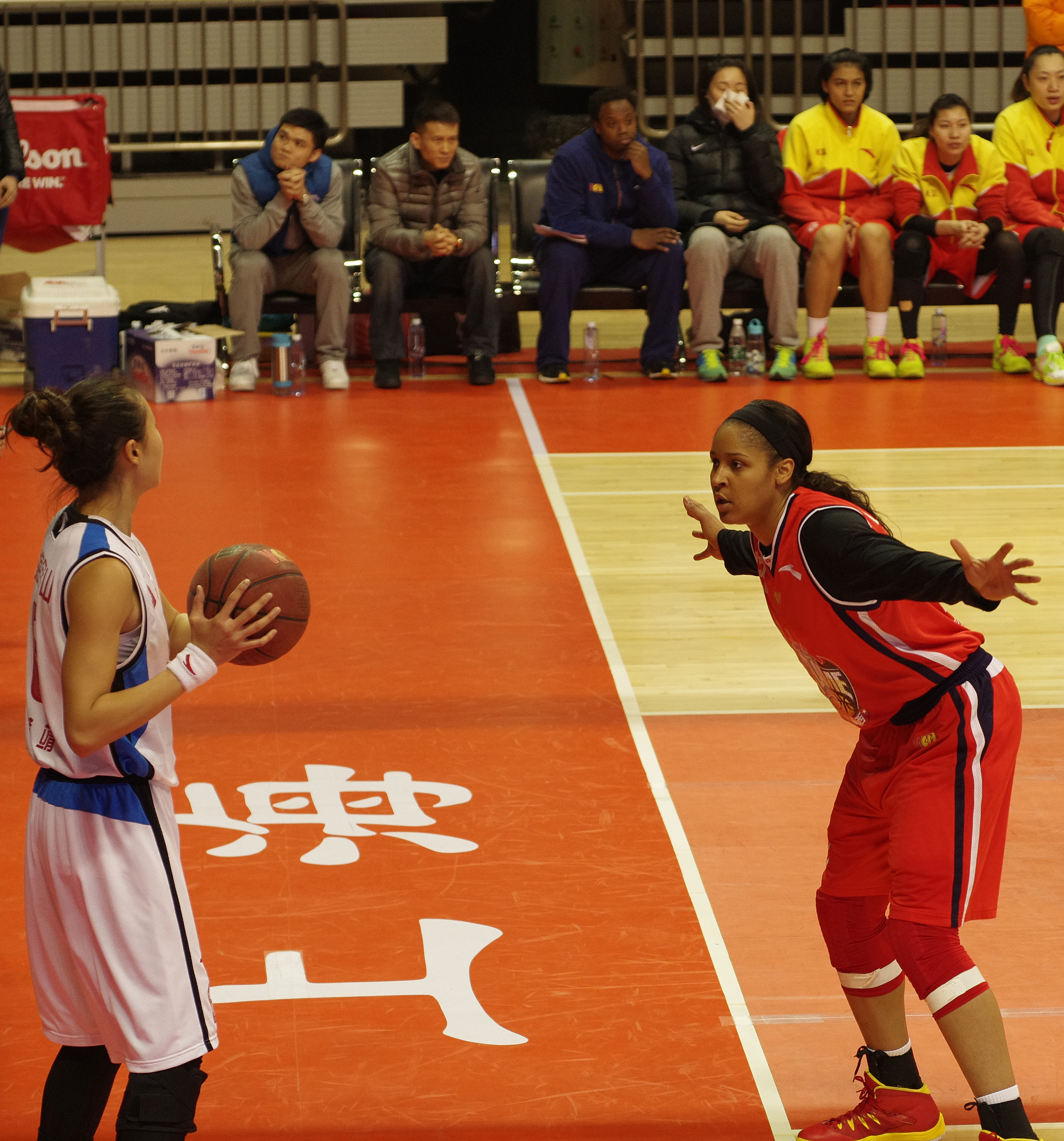 Maya Moore defends Huang Jing's inbound pass.